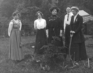 Annie and Kitty Kenney, Florence Haig, Mary Blathwayt and Marion Wallace-Dunlop. This picture was taken by Colonel Linley Blathwayt and was stored on glass negatives. The Blathwayt's home of Eagle House way the home of Linley, Emily and Mary Blathwayt who all actively supported the suffragette cause. Nearly all the prominient UK suffragettes stayed with them and these photos and dozens of trees were planted to commemorate their visits. Col. Linley Blathwayt took these pictures between 1908 and 1912. He died in 1919. The pictures are made available in larger formats by .